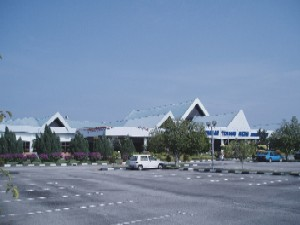 A car park view of Kuantan Sultan Haji Ahmad Shah Airport.